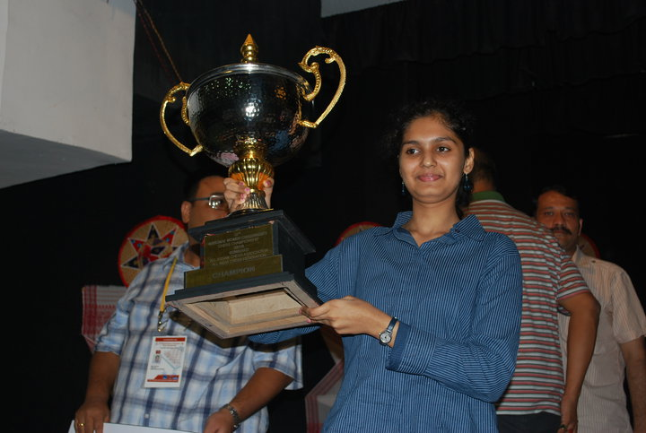 WFM Rucha Pujari wins 37th National Women Chess Championship 2010 in Guwahati, Assam.